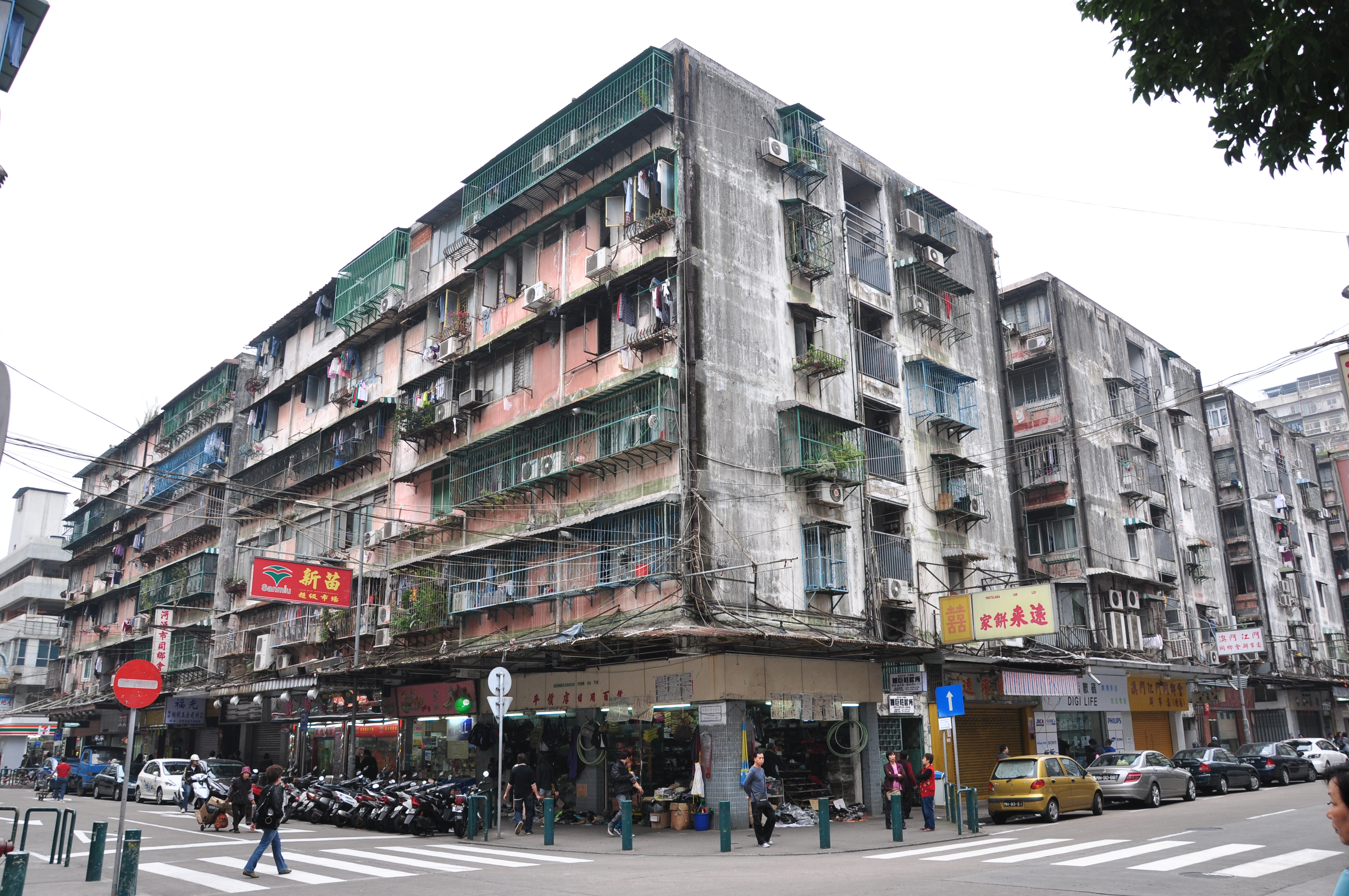 Older sector of Iao Hon, Macau